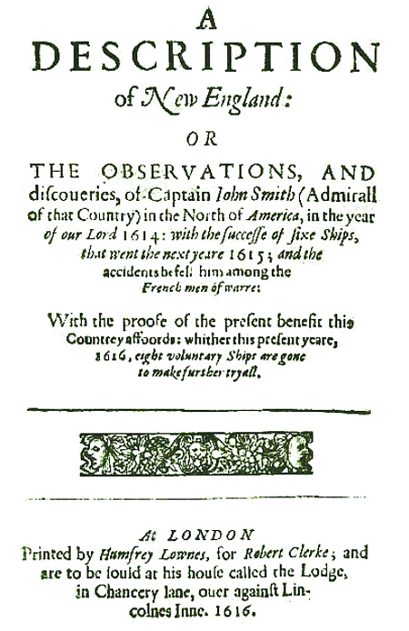 Titel page of A Description of New England of John Smith of Jamestown (published 1616).